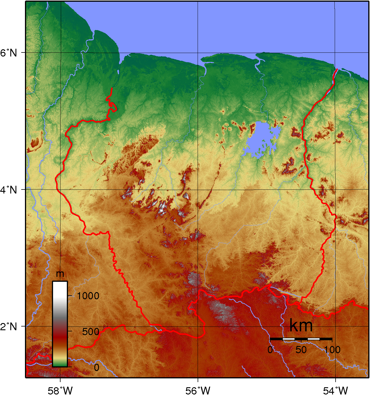 Topographic map of Suriname. Created with GMT from public domain SRTM data.